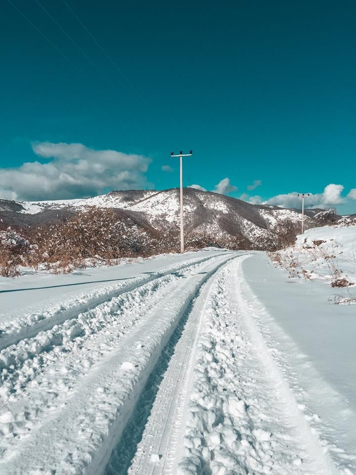 Photo by Elshan Latifov